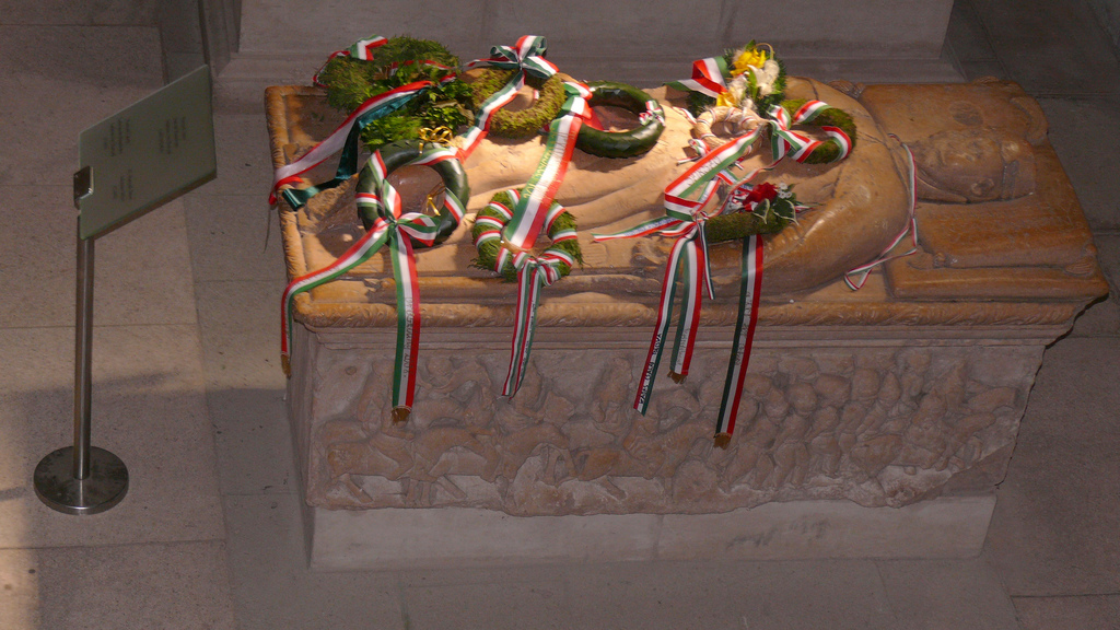 Alba Iulia, tomb of János Hunyadi